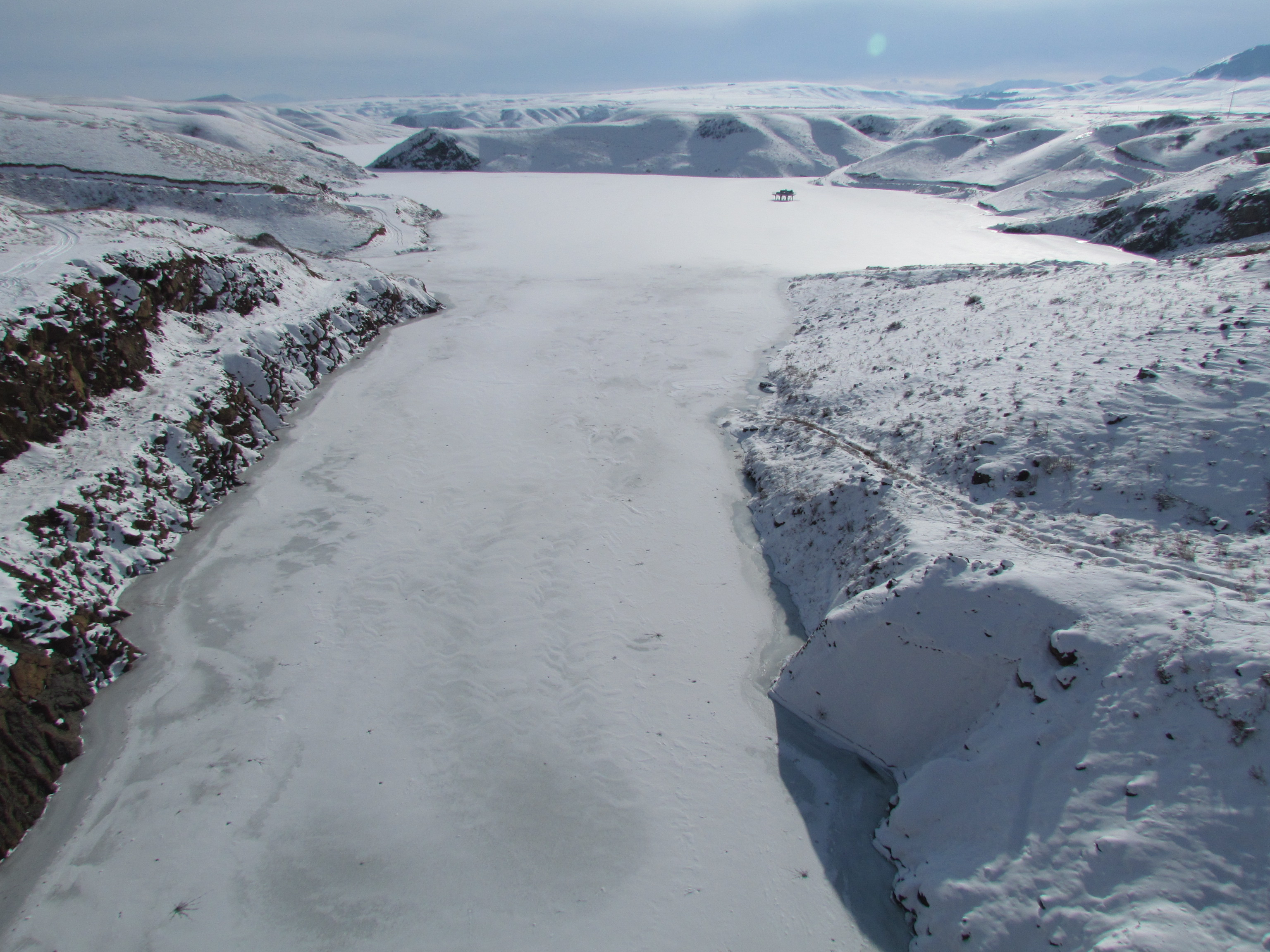 Moinak Hydro Power Plant